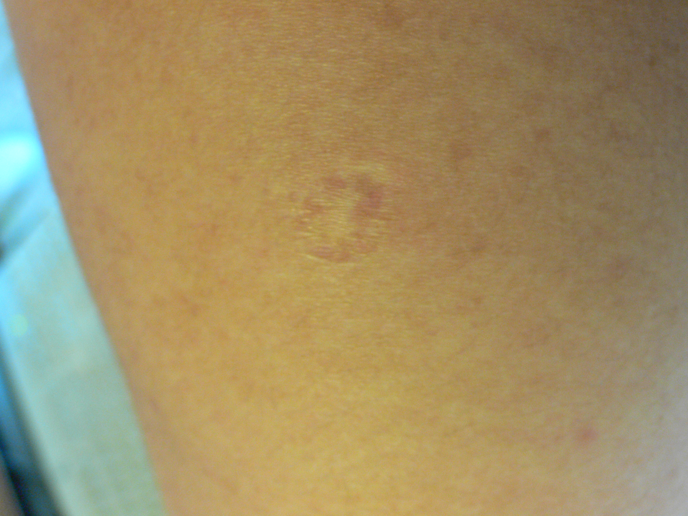 My left upper arm which recieved Bacillus Calmette-Guérin for years